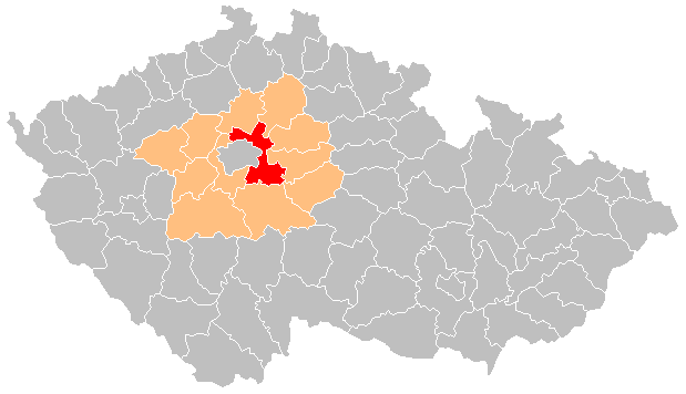 Prague-East District within Central Bohemian Region, Czech Republic. Current extent and district borders as valid since January 1, 2007.